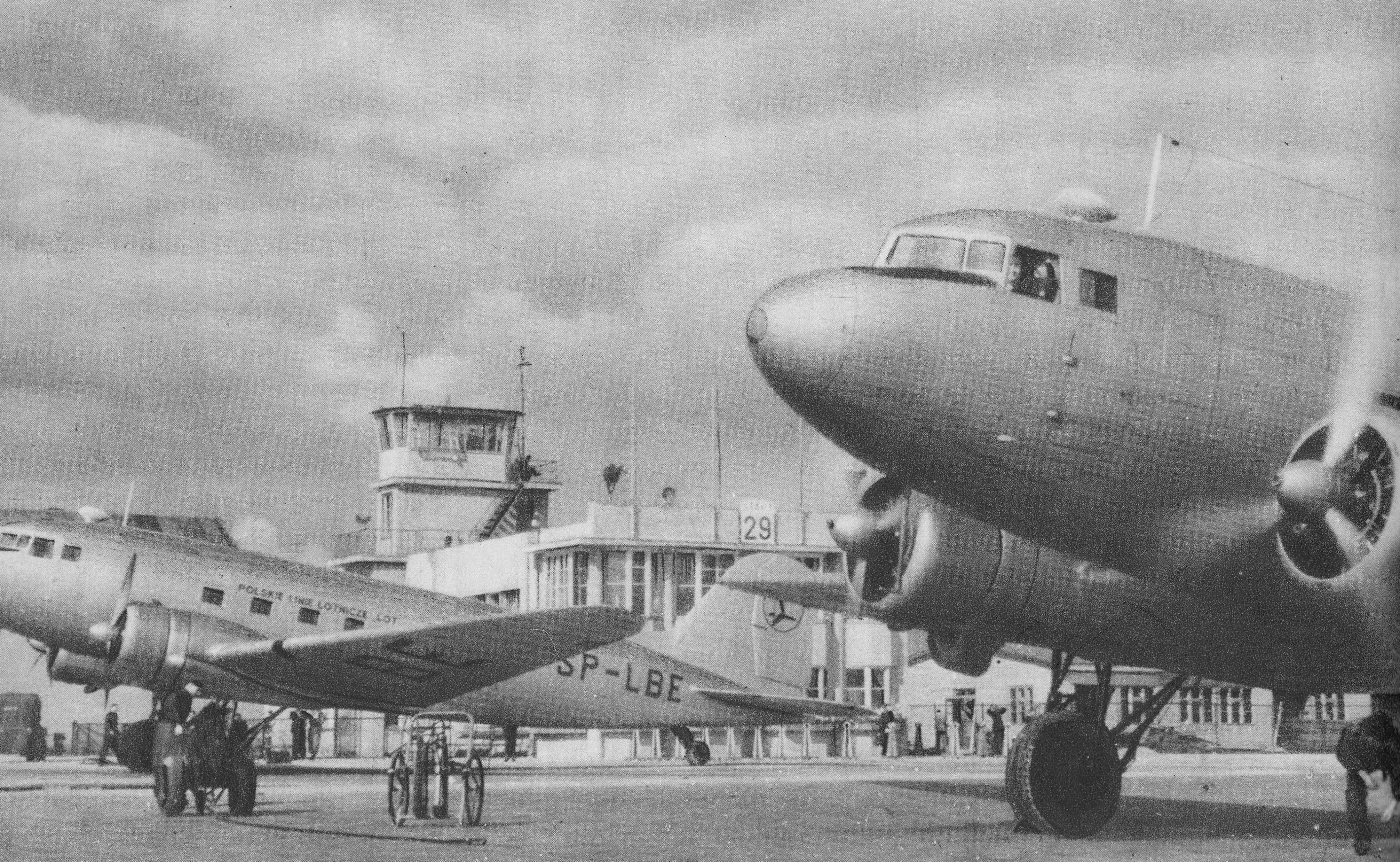 Planes at Warszawa-Okęcie Airport in Warsaw